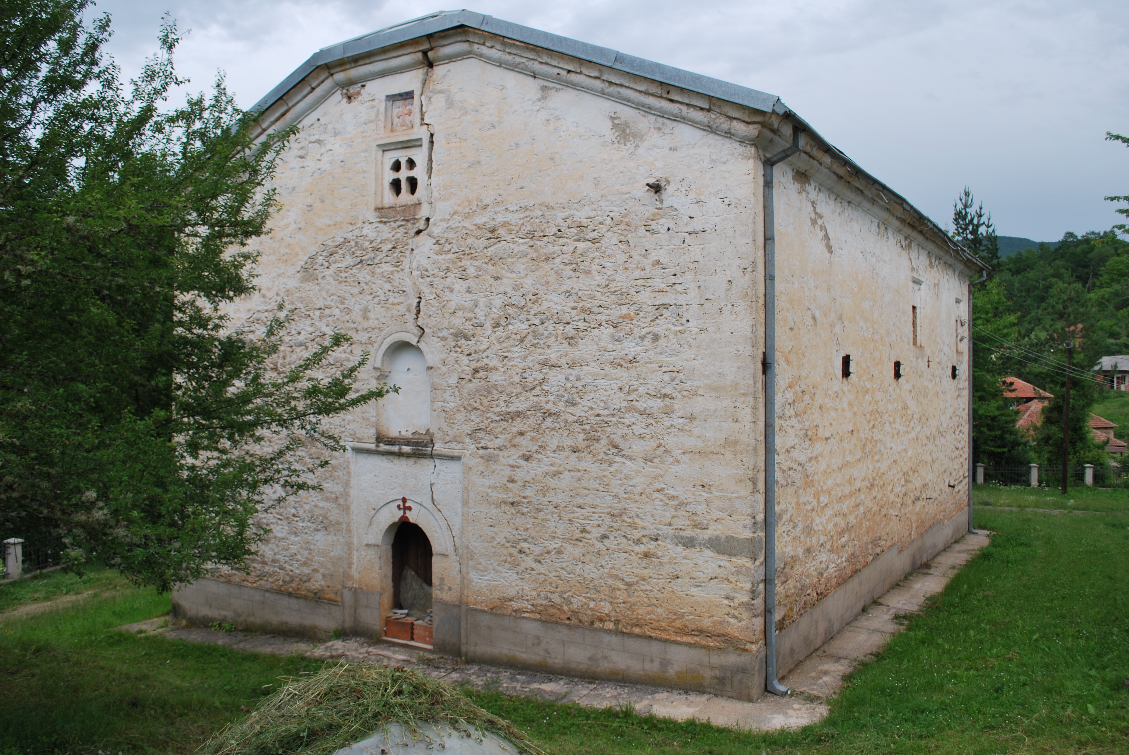 St. George's Church in Belica, Macedonia